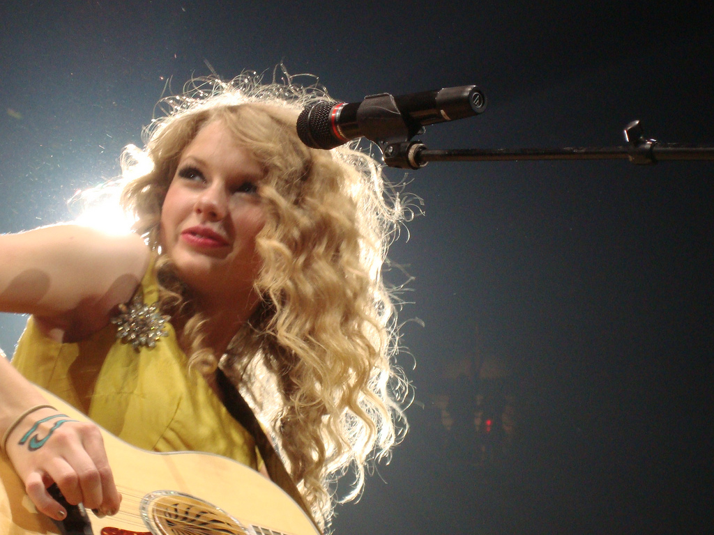 Country pop singer Taylor Swift performs "Fifteen" on the Fearless Tour in 2010, wearing a yellow dress.